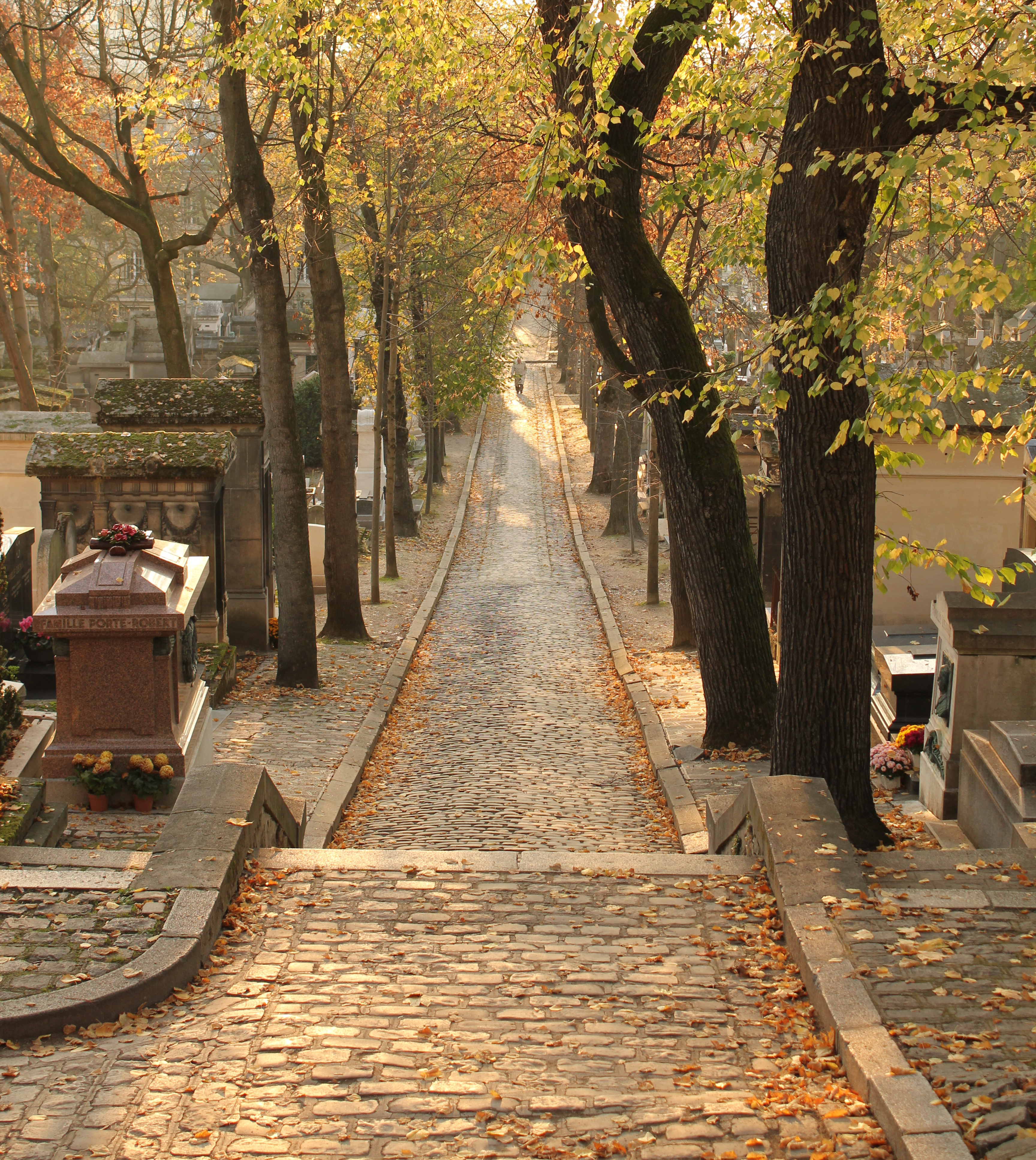 Avenue latérale du Nord in autumn, Cemetery of Père-Lachaise, Paris, France.